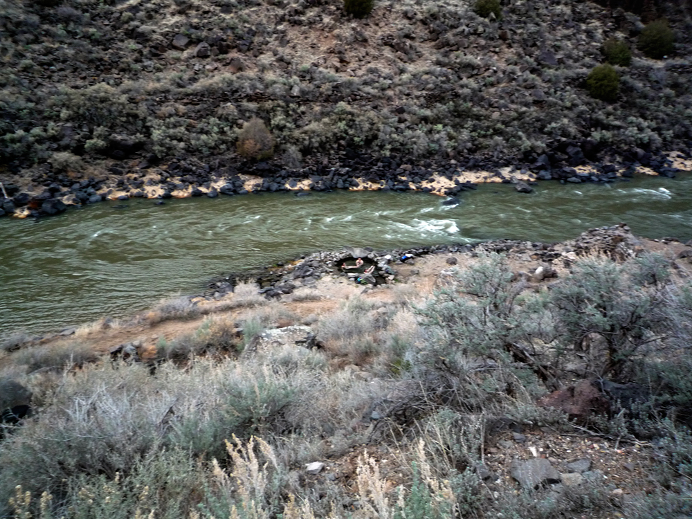 Rio Grande and the main pool of the Manby Hot Spring. Posted in Hot Tubbin' on the Rio Grande.